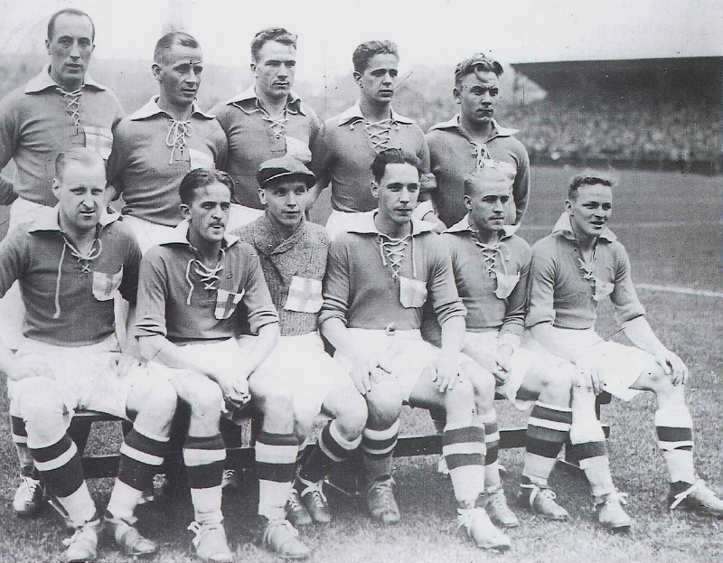 Finnish national football team prior to match against Denmark in 1933. Bottom row from left: Max Viinioksa, Frans Karjagin, Viljo Halme, Kaarlo Oksanen, Pentti Larvo, Arvo Närvänen Top row from left: Gunnar Åström, Ernst Grönlund, Jarl Malmgren, Leo Karjagin, Nuutti Lintamo